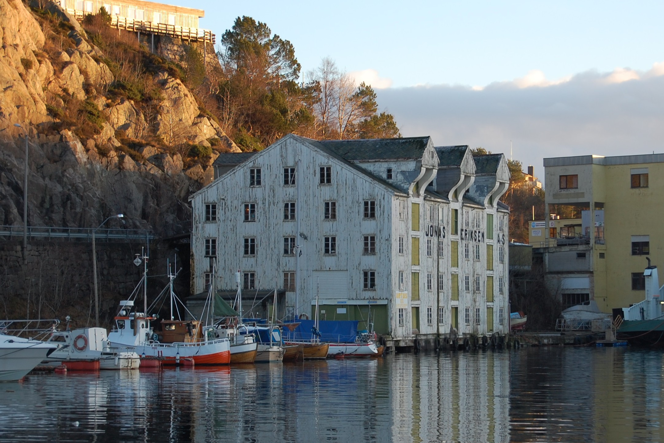 "Jonas Eriksen" warehouse in Kristiansund, Norway